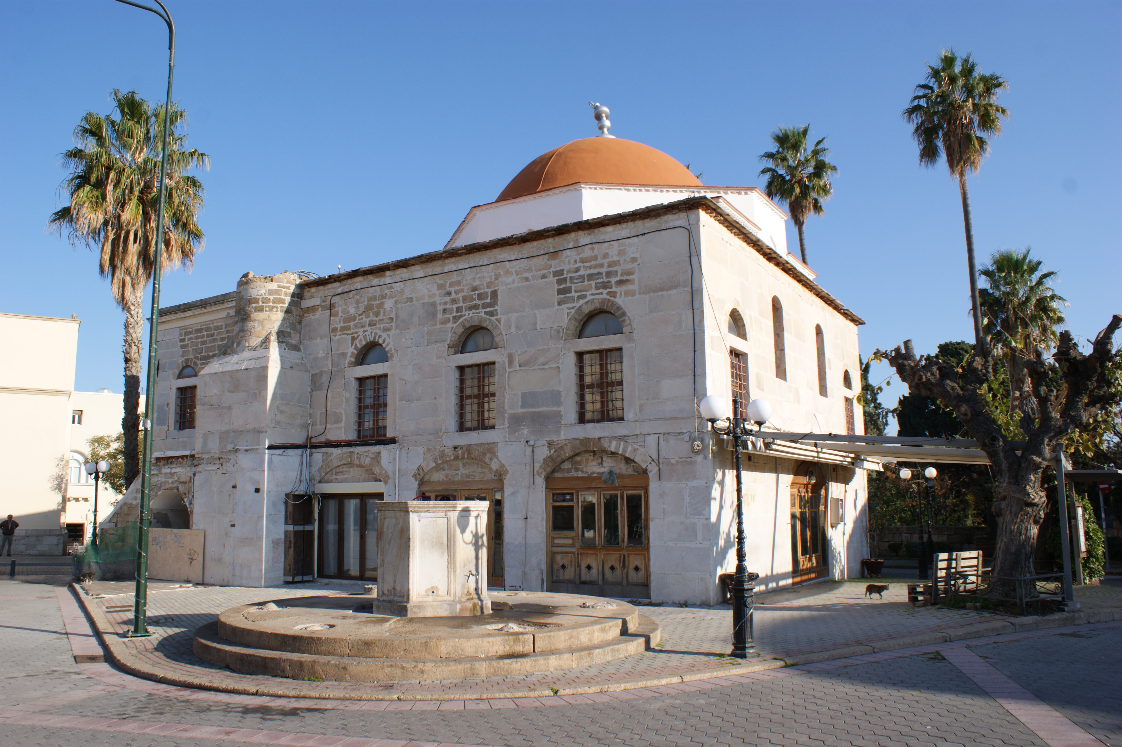 Eleftherias Square (also in Greek: Πλατεία Ελευθερίας, Platía Eleftherías, Turkish: Hürriyet Meydanı, Liberty Square) in the city of Kos on the Greek island of Kos. Defterdar mosque with the Muslim fountain (washing place). The fountain and the mosque were badly damaged in the 2017 earthquake, the minaret collapsed.